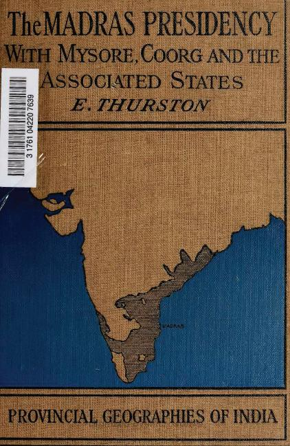 Book cover of a 1913 book published by Cambridge University Press. There is no information about the cover design in the book and the book itself is in PD now